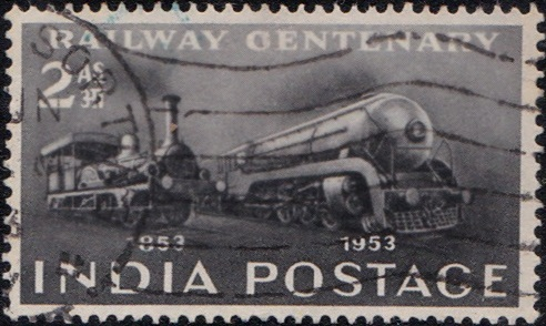 ಭಾರತೀಯ ಅಂಚೆ ಸೇವೆಯು ೧೦೦ ವರ್ಷಗಳ ಸೇವೆಯ ನೆನಪಿಗೆ ಅನನ್ಯವಾದ ಒಂದು ಅಂಚೆ ಚೀಟಿಯನ್ನು ಬಿಡುಗಡೆ ಮಾಡಿತ್ತು.